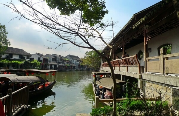 Xitang town bridges and rivers